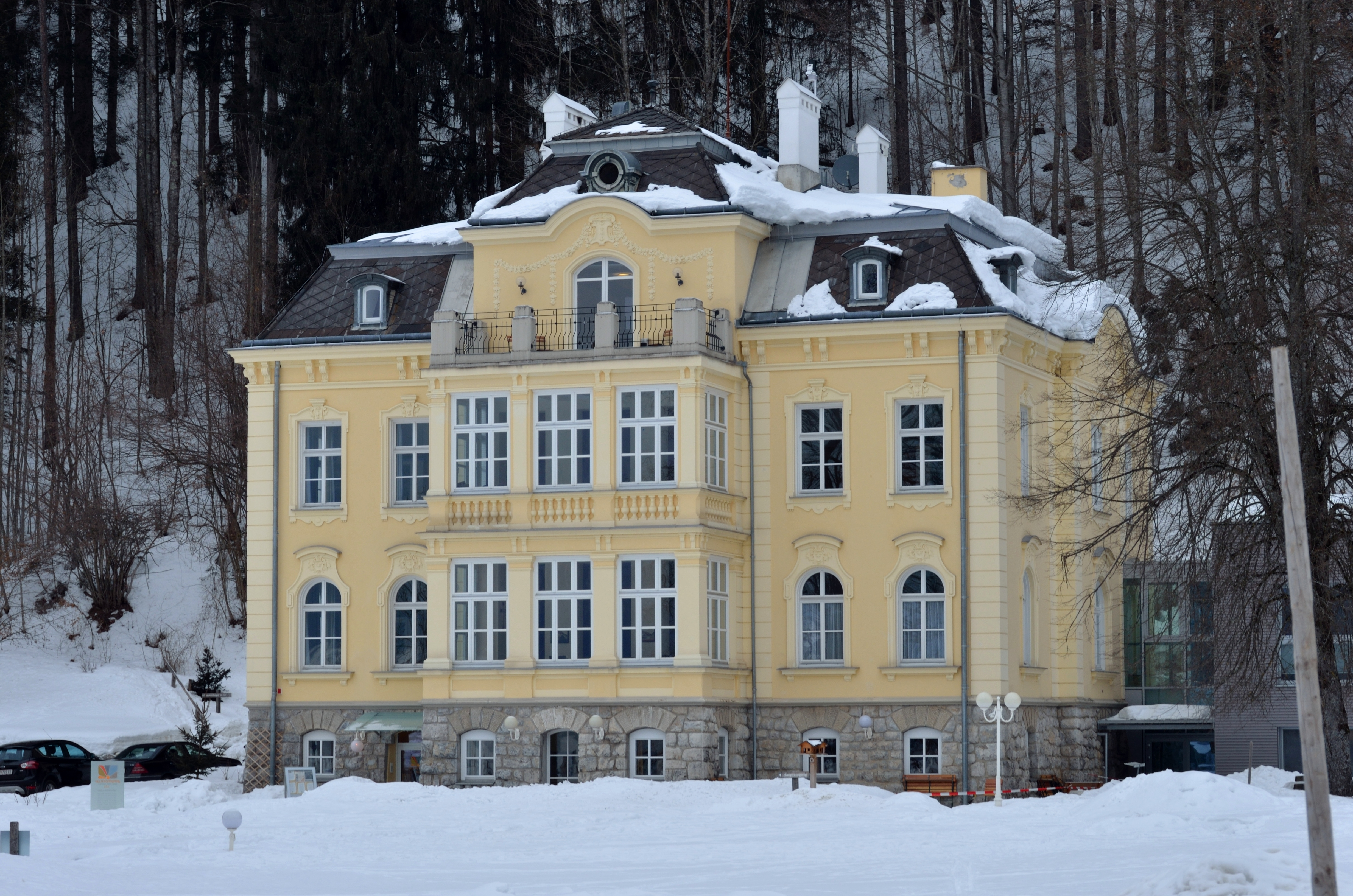 The Villa Sondwend, in Roßleithen, Upper Austria, is protected as a cultural heritage monument. It was built in 1907 and serves now as an infopoint and hotel for the Nationalpark Kalkalpen.